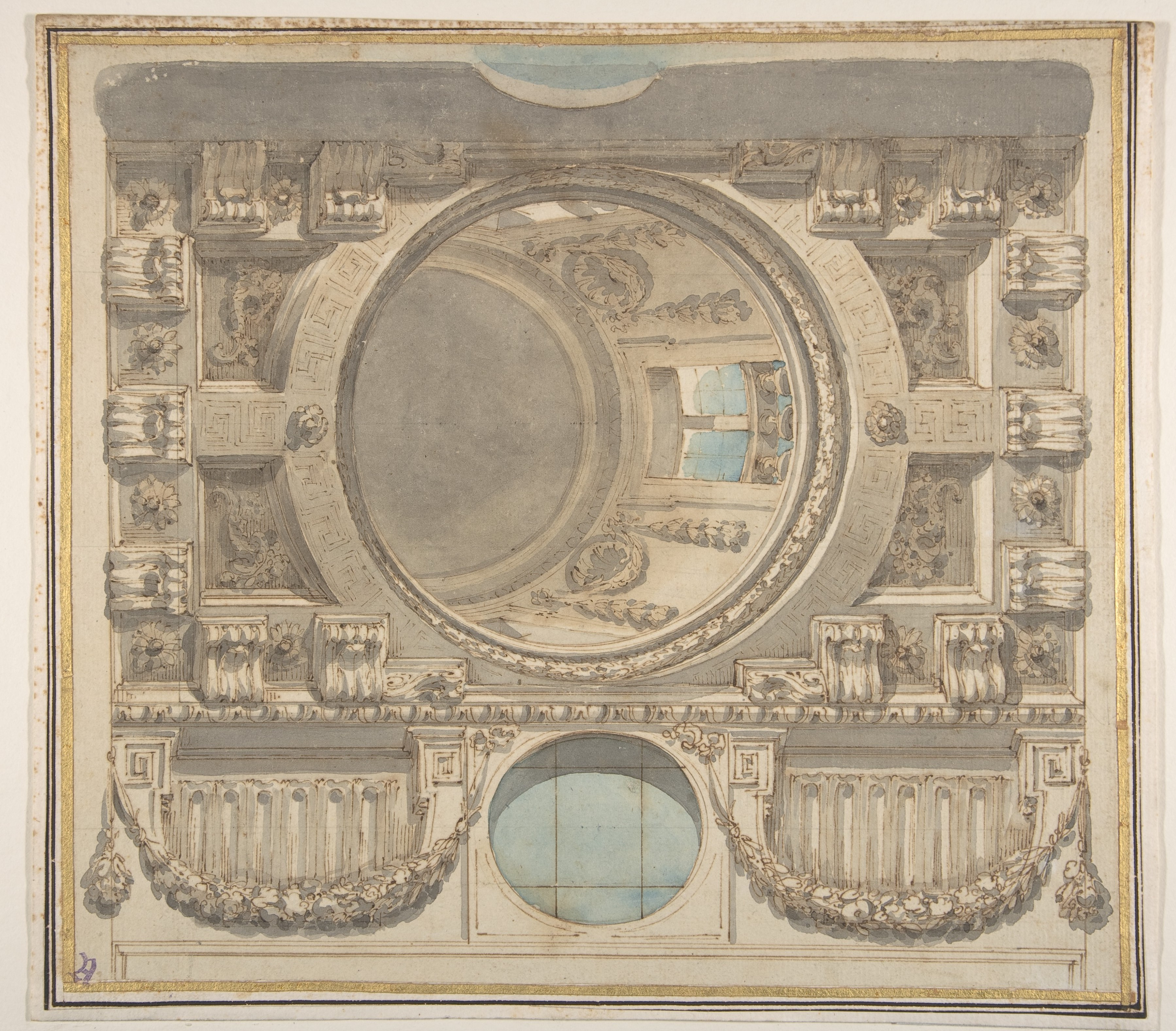 Drawing Ornament & Architecture; Drawings